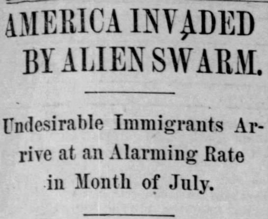 Chicago Tribune. 24 Aug 1903.